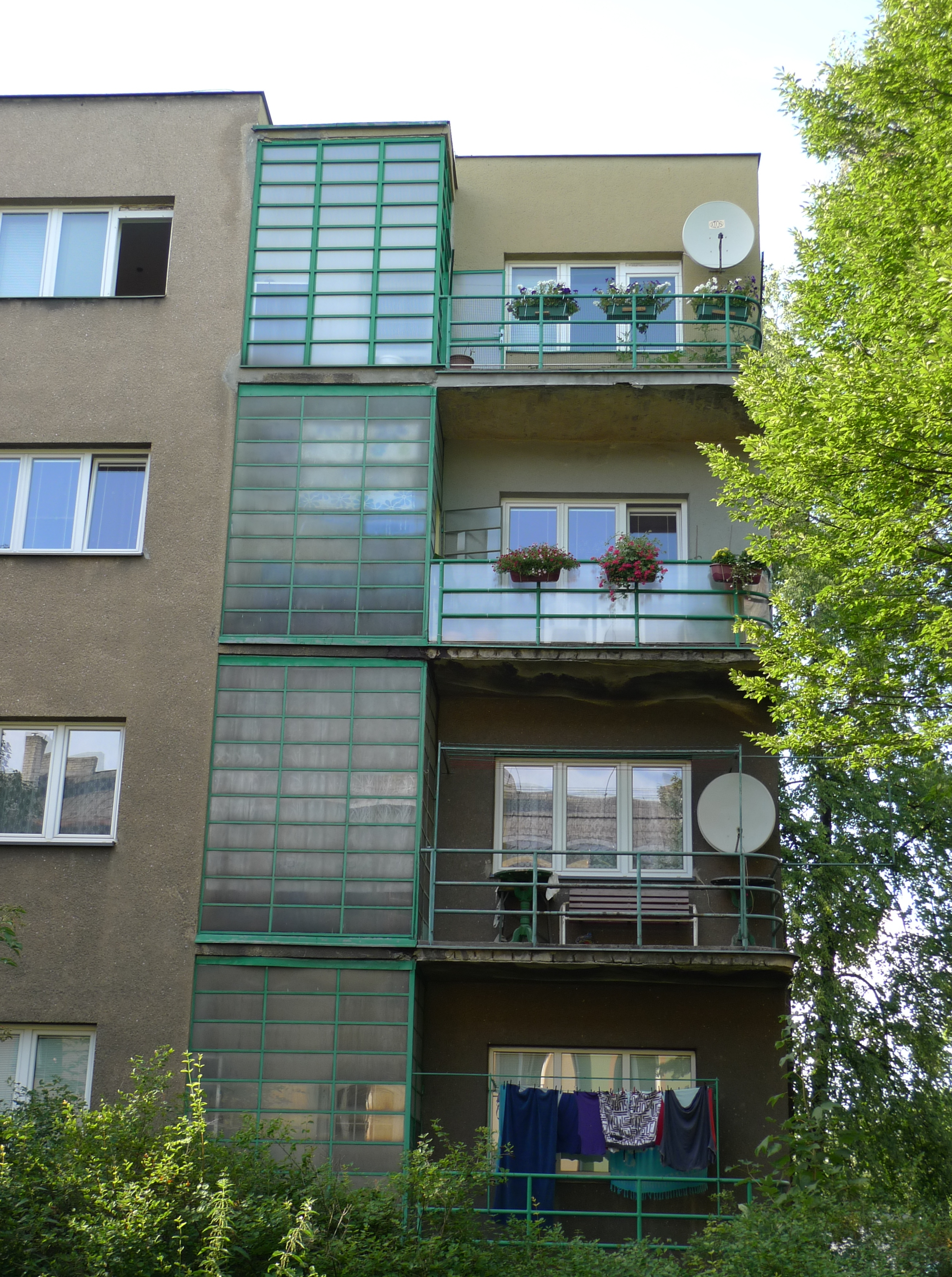 Anna Friedlová-Kanczuská - Vzorové sídliště v Ostravě (Sídliště Stalingrad), 1947